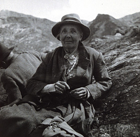 Bessie Stough Callender Courtesy Bessie S. Callender Papers, Archives of American Art, Smithsonian Institution.